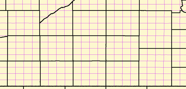 Map of southeast Nebraska, showing county lines in black and PLSS township lines in purple. Map made using the USGS National Map Viewer